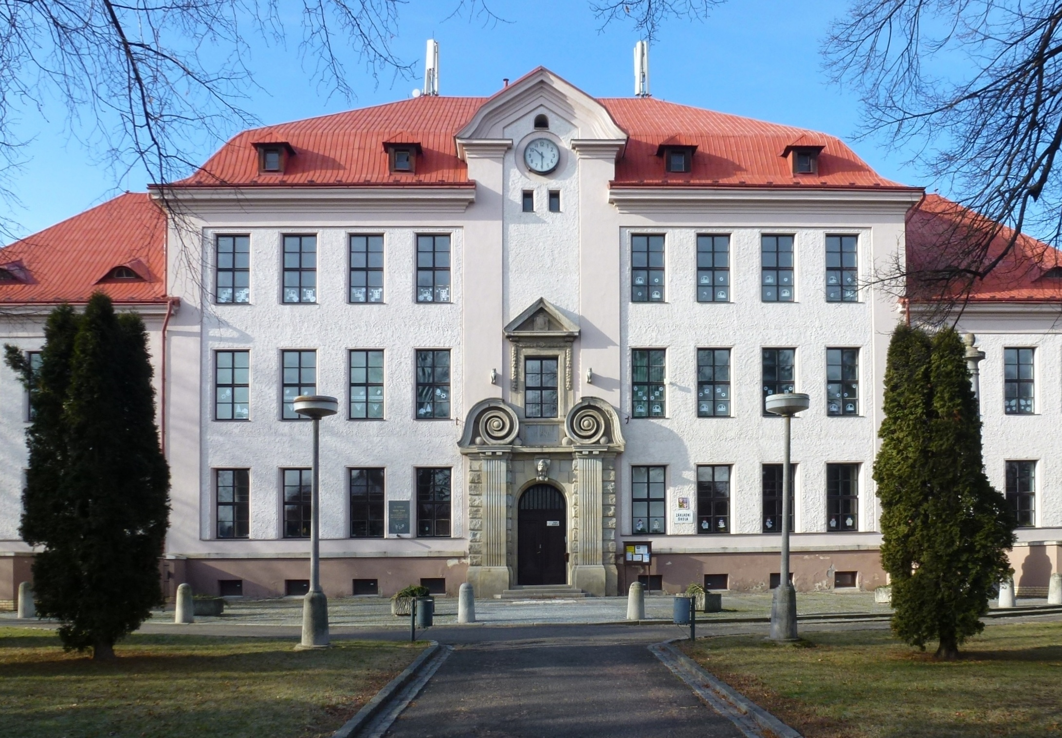 Building of primary school in Skuteč, Komensky Square. Photo location - Czechia, Pardubice Region, Skuteč town.